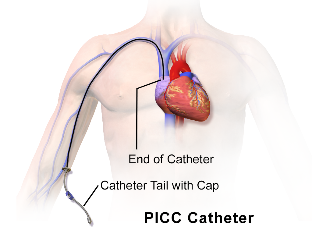 Peripherally-inserted Central Catheter (PICC). See a full animation of this medical topic.